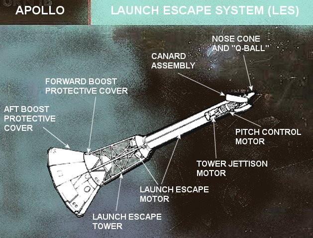 Apollo Launch Escape System diagram. Diagram created in Paint Shop Pro from several NASA photos from the NASA NIX server (